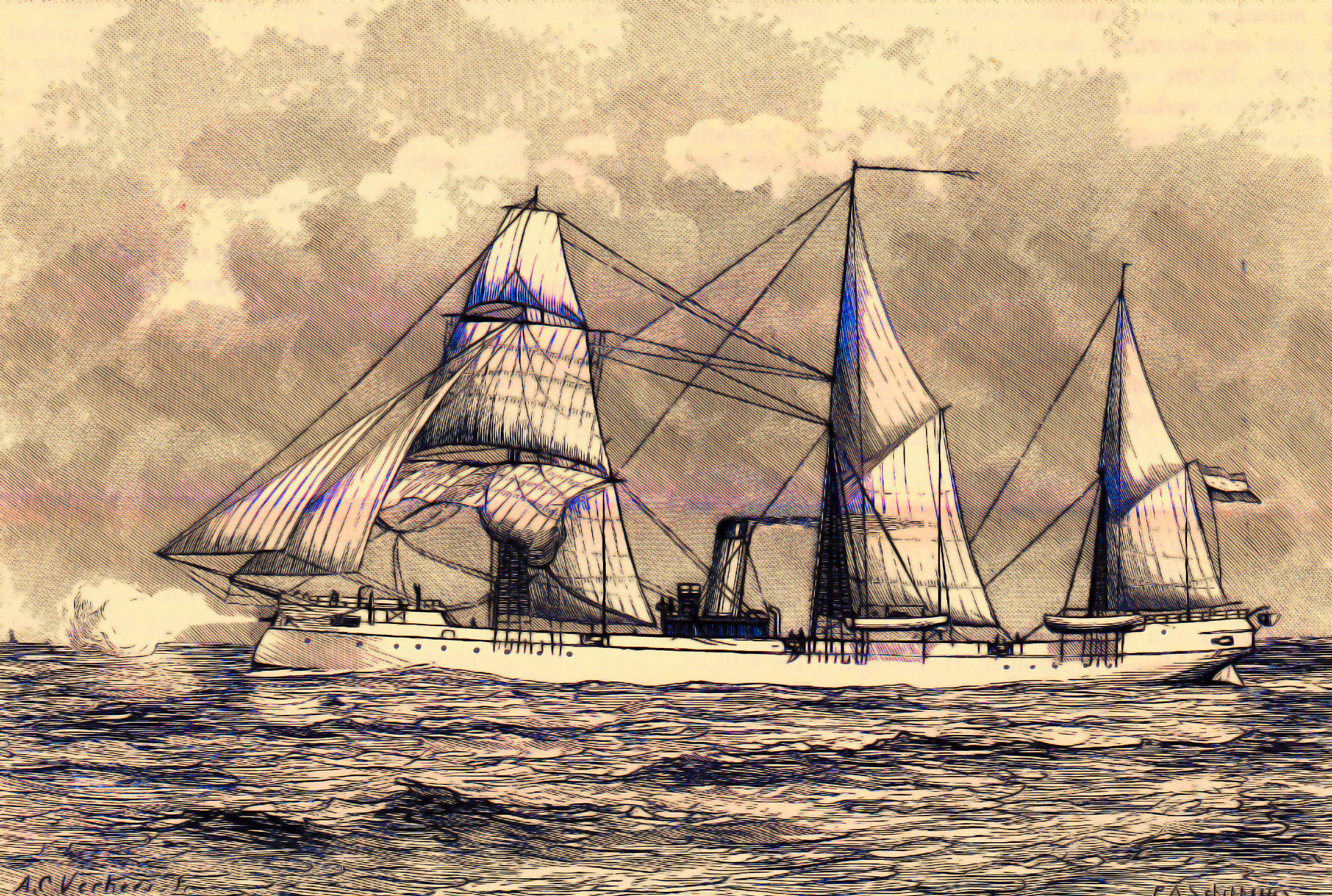 Schroefstoomschip